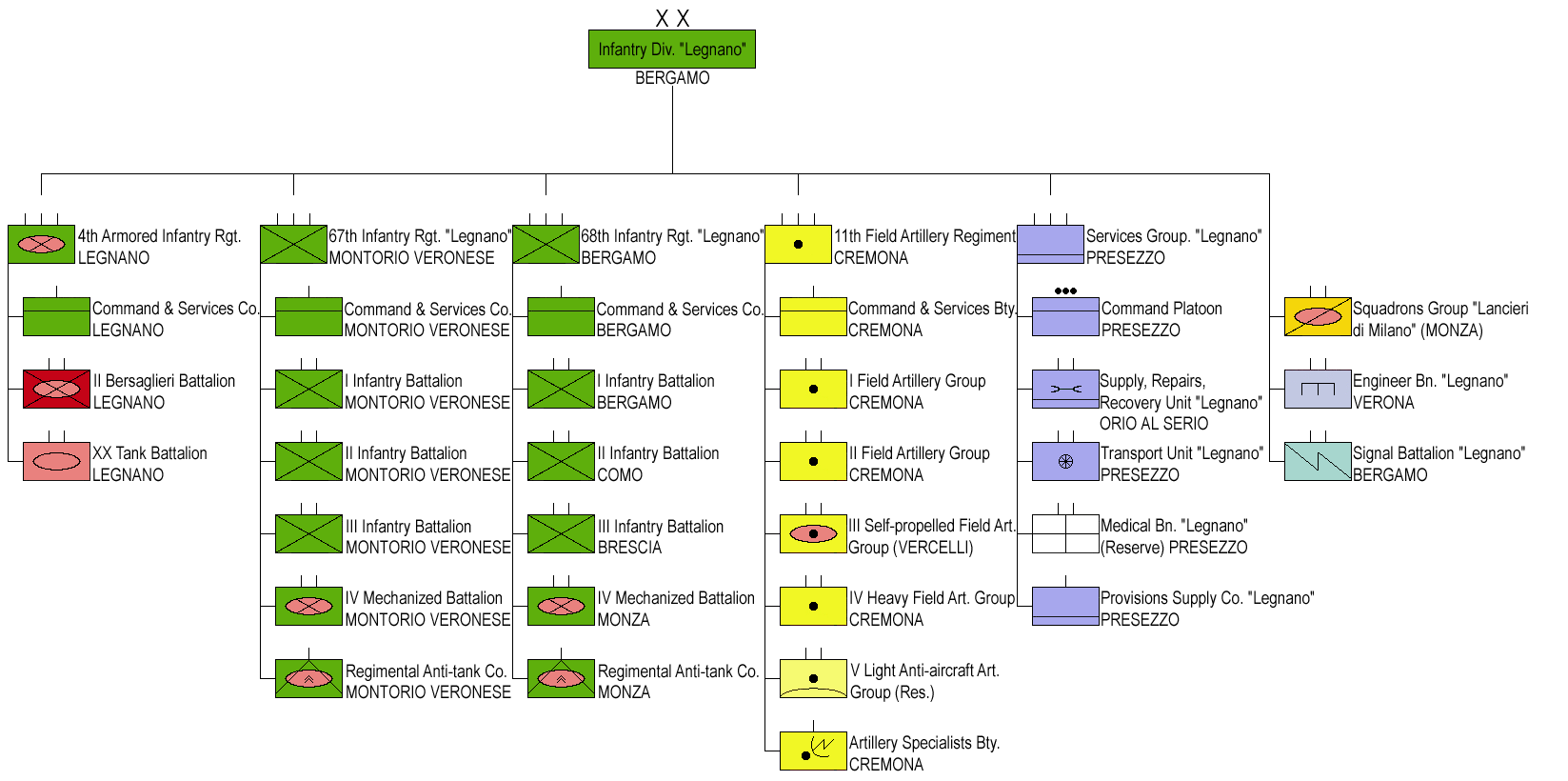 Structure of the Italian Army Infantry Division "Legnano" in 1974